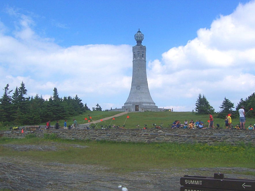 Photographed by Daniel Case 2005-06-21.